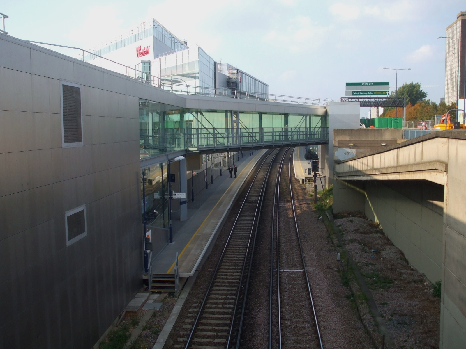 Shepherd's Bush Overground station looking north from Uxbridge Road on day of opening. Originally planned for opening in 2007, the northbound platform was deemed to be to narrow for passengers so this had to be widened.